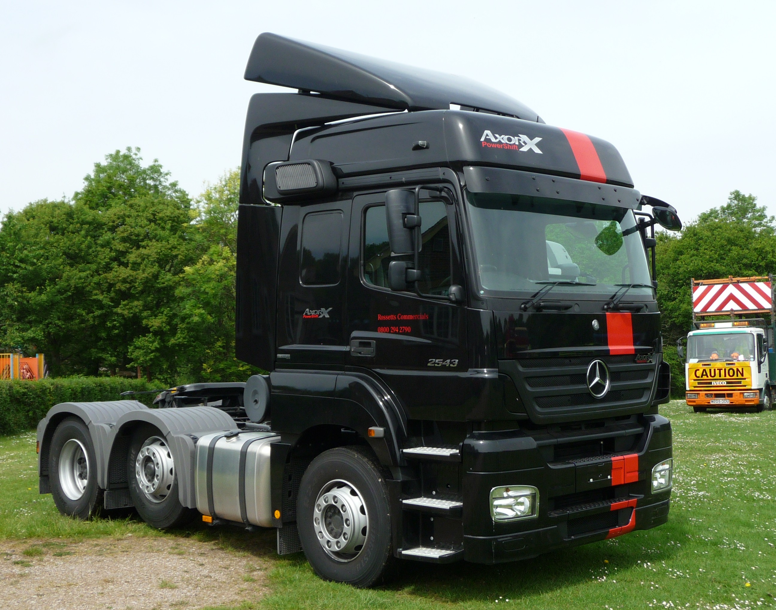 A Rossetts Commercials Mercedes-Benz Axor cab, seen at the Bustival event, Havenstreet, Isle of Wight, celebrating the 80th anniversary of bus company Southern Vectis.